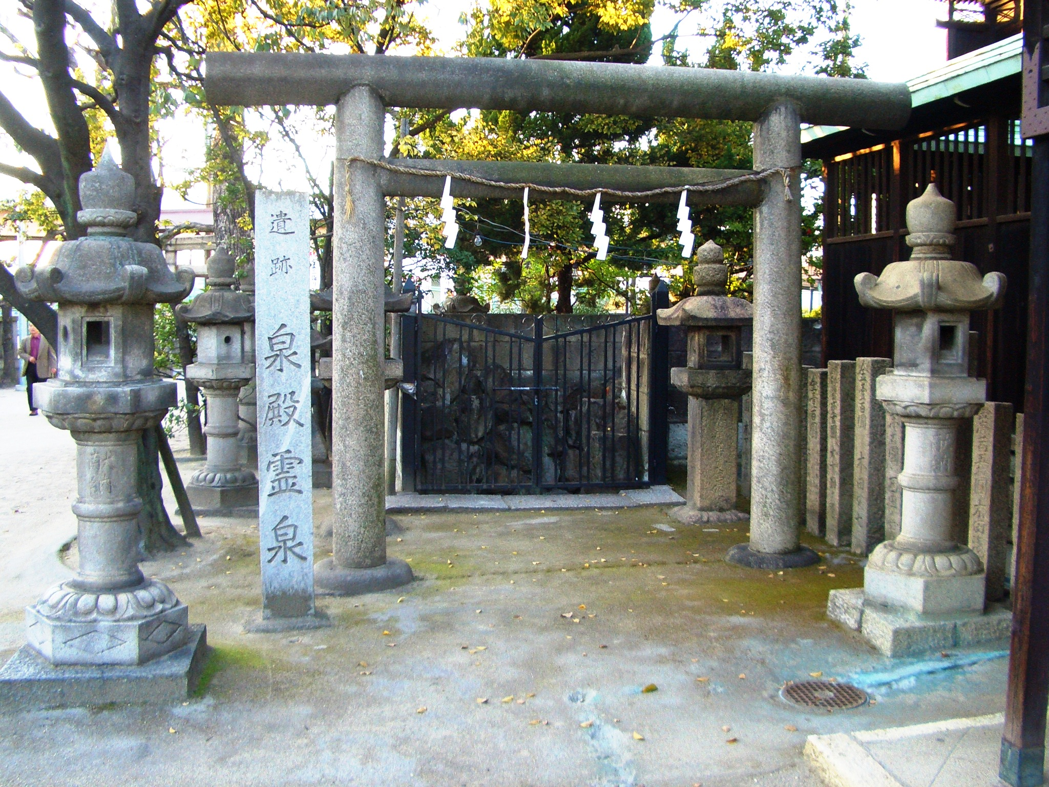 The spring ruins at Izudonoghu in Suita city,Osaka,Japan. since 869. 泉殿宮の泉跡